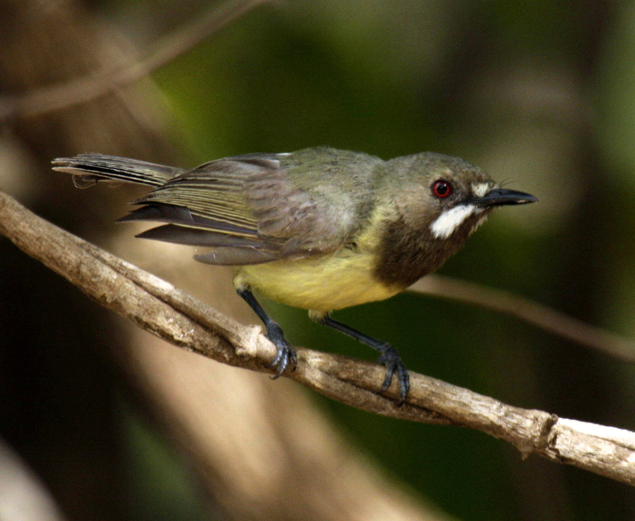 Fairy Gerygone (Gerygone palpebrosa) Portland Roads, Cape York, North Queensland, Australia